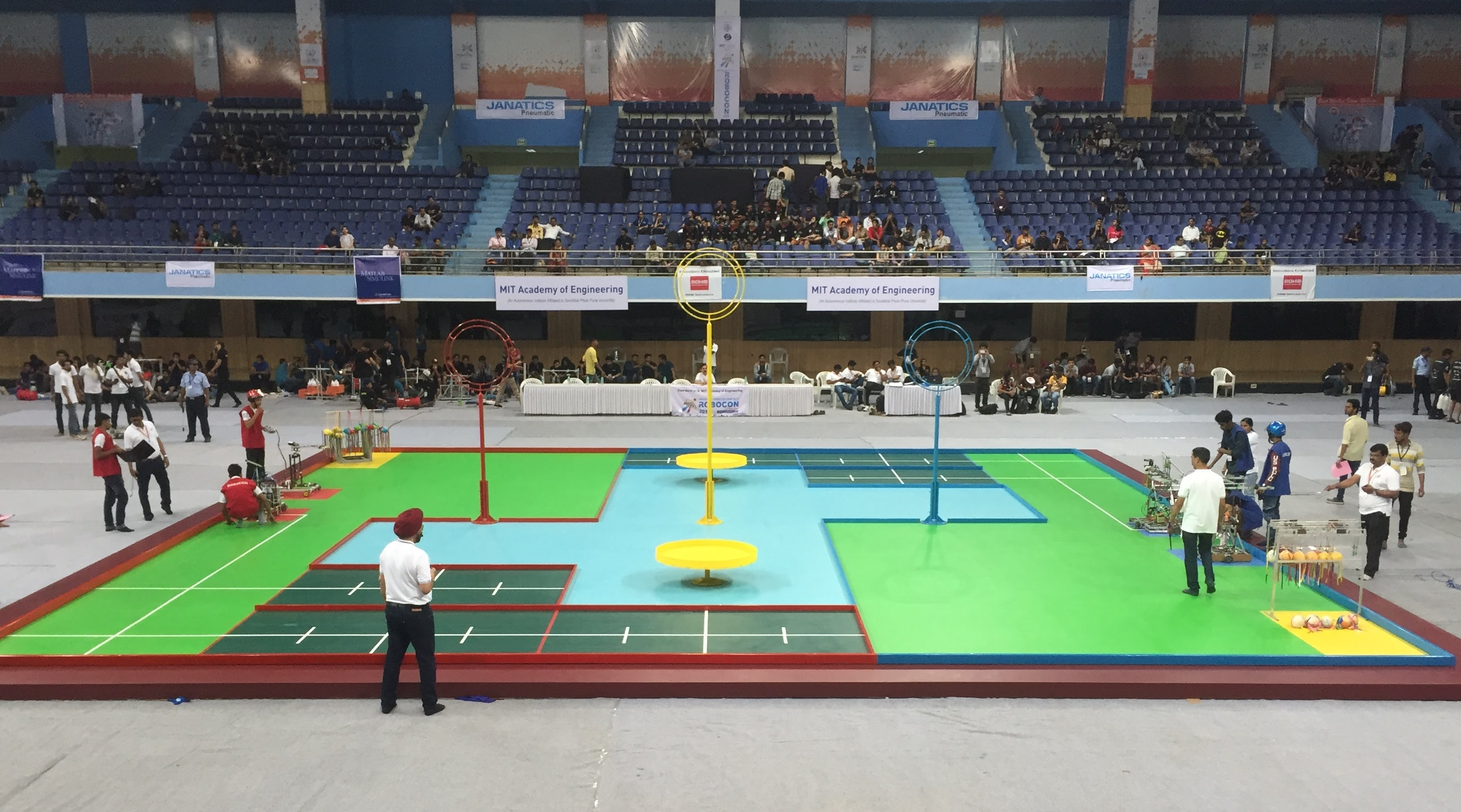 Robocon India 2018 held at balewadi stadium,Pune